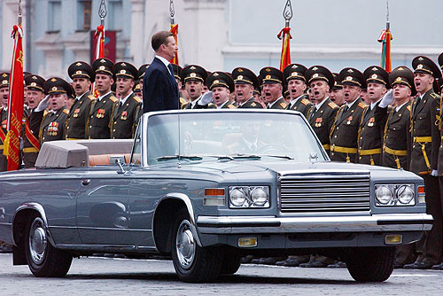 RED SQUARE, MOSCOW. Defence Minister Sergei Ivanov at a military parade celebrating the 59th anniversary of victory in the Great Patriotic War.